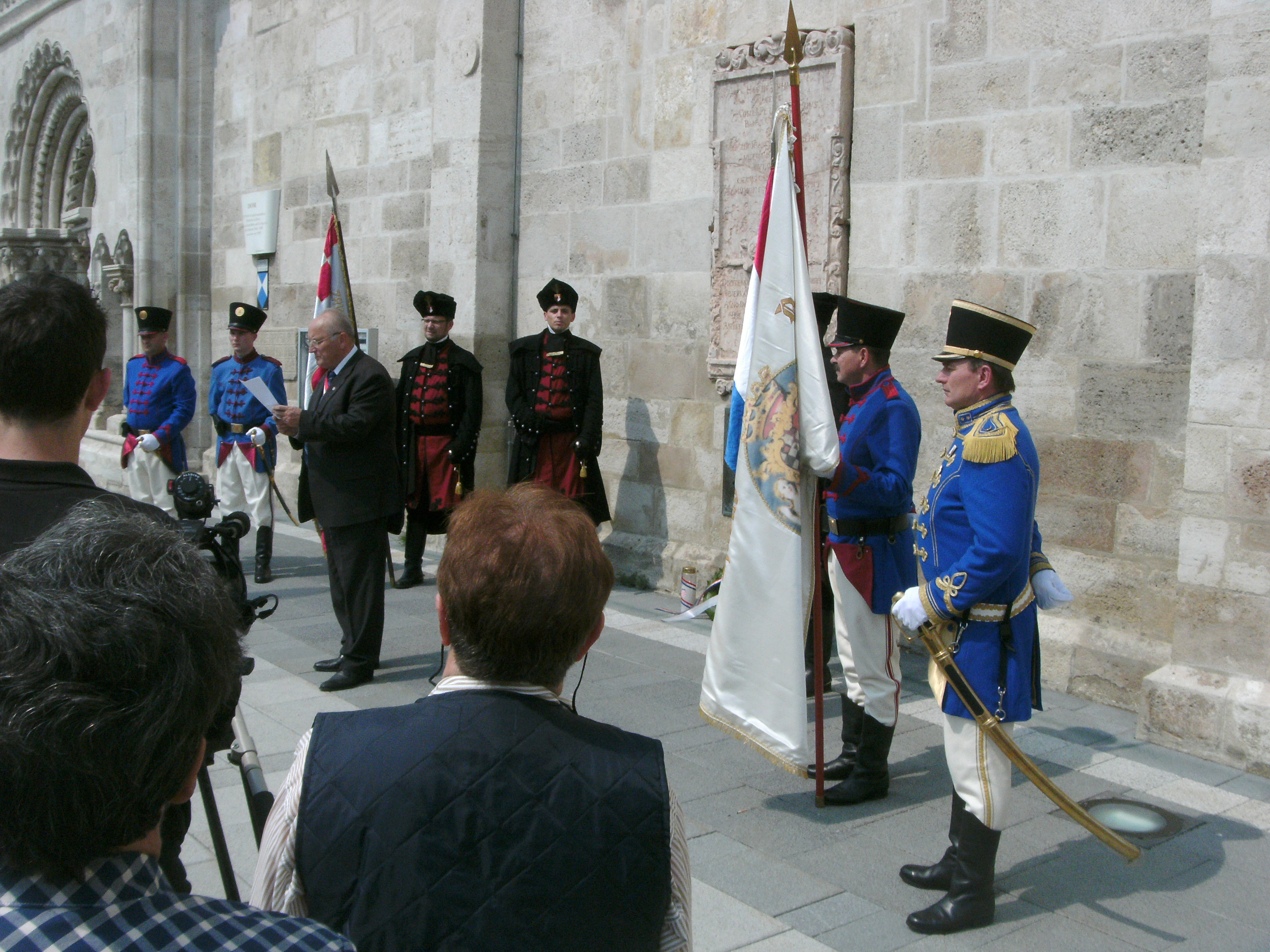 Commemoration for Frankopan and Zrinski in front of their tombstone on the wall of Wiener Neustadt cathedral on 25 April 2011.